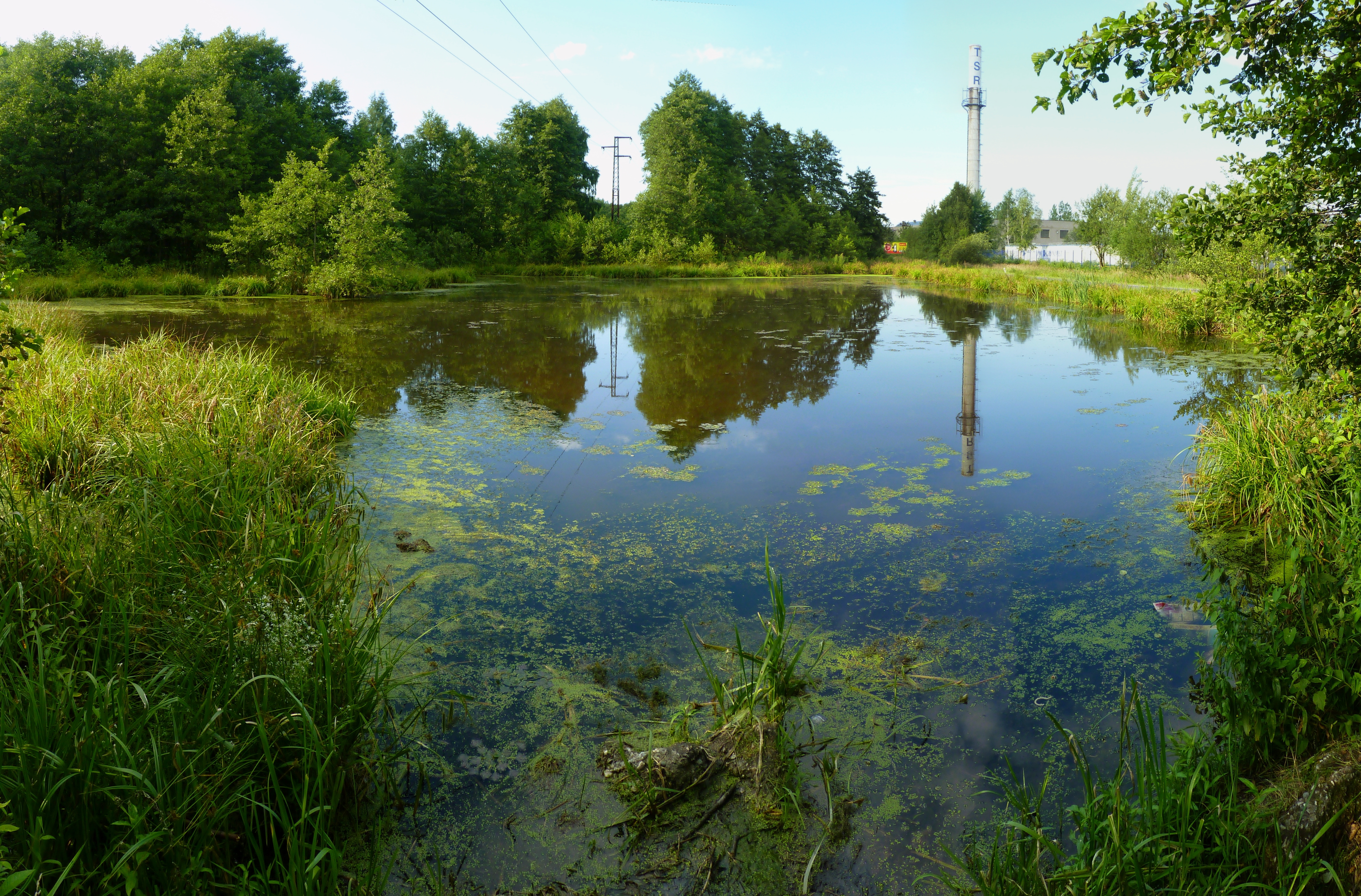 Nature reserve Přemyšov. Ostrava-city District, Moravian-Silesian Region, Czech Republic